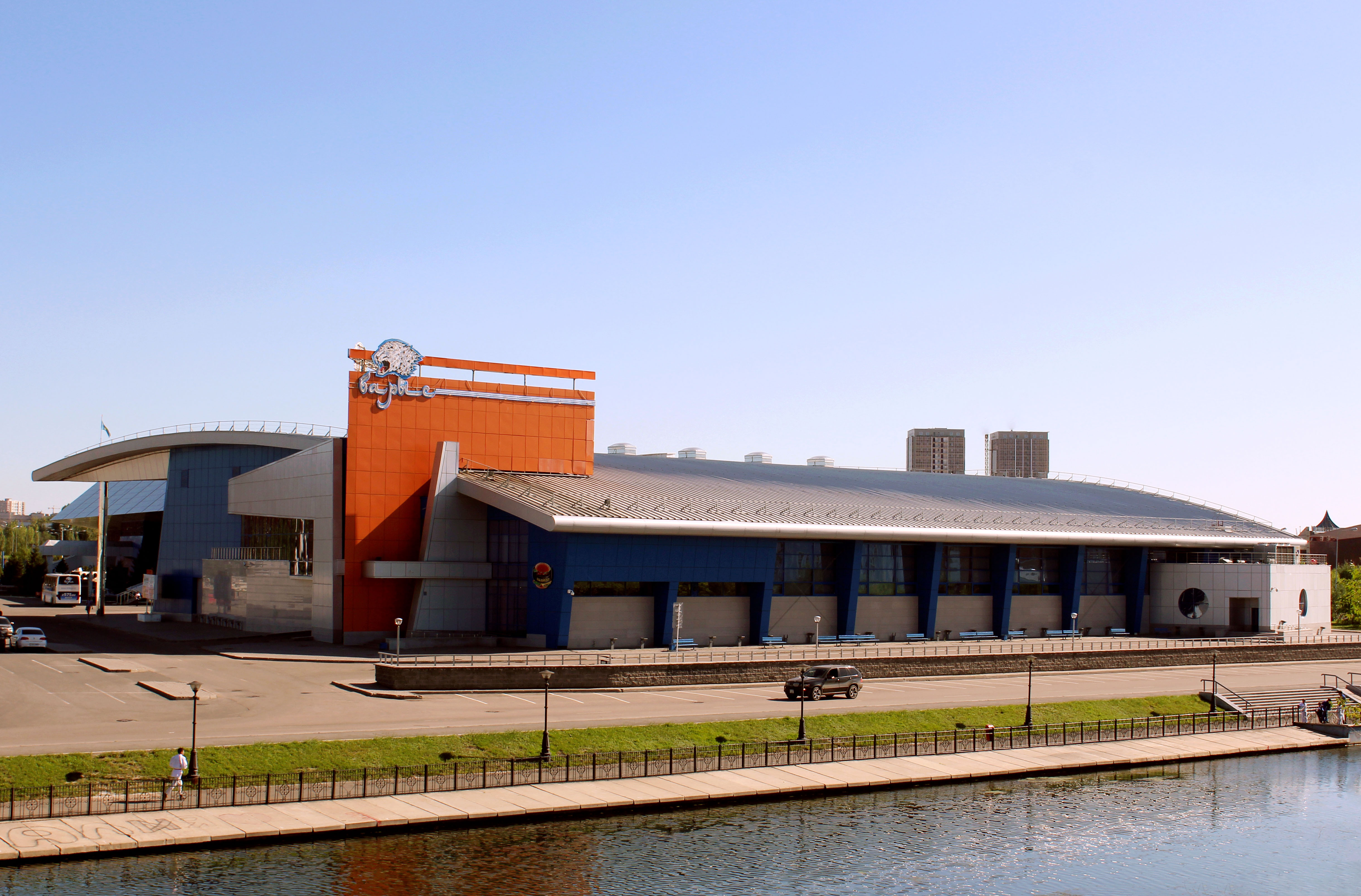 Minor Arena of Kazakhstan Sports Palace.